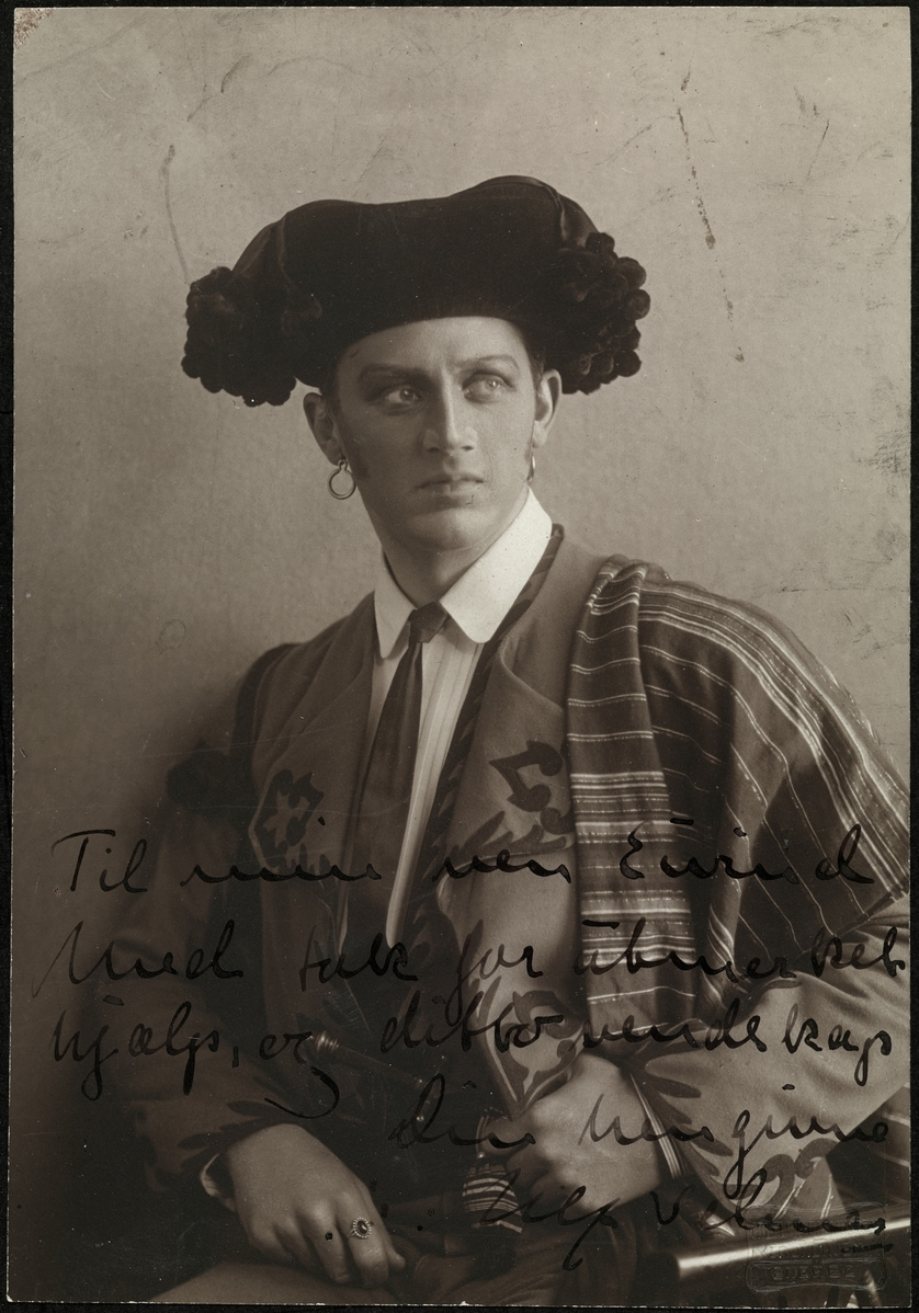 Norwegian actor Ulf Selmer. About 1920. Written on the photo is "Til min ven Eivind med tak form utmerket hjælp, og ditto venskap. Din hengivne Ulf Selmer.", in english: "To my friend Eivind, with thanks for excellent help and friendship, yours Ulf Selmer"